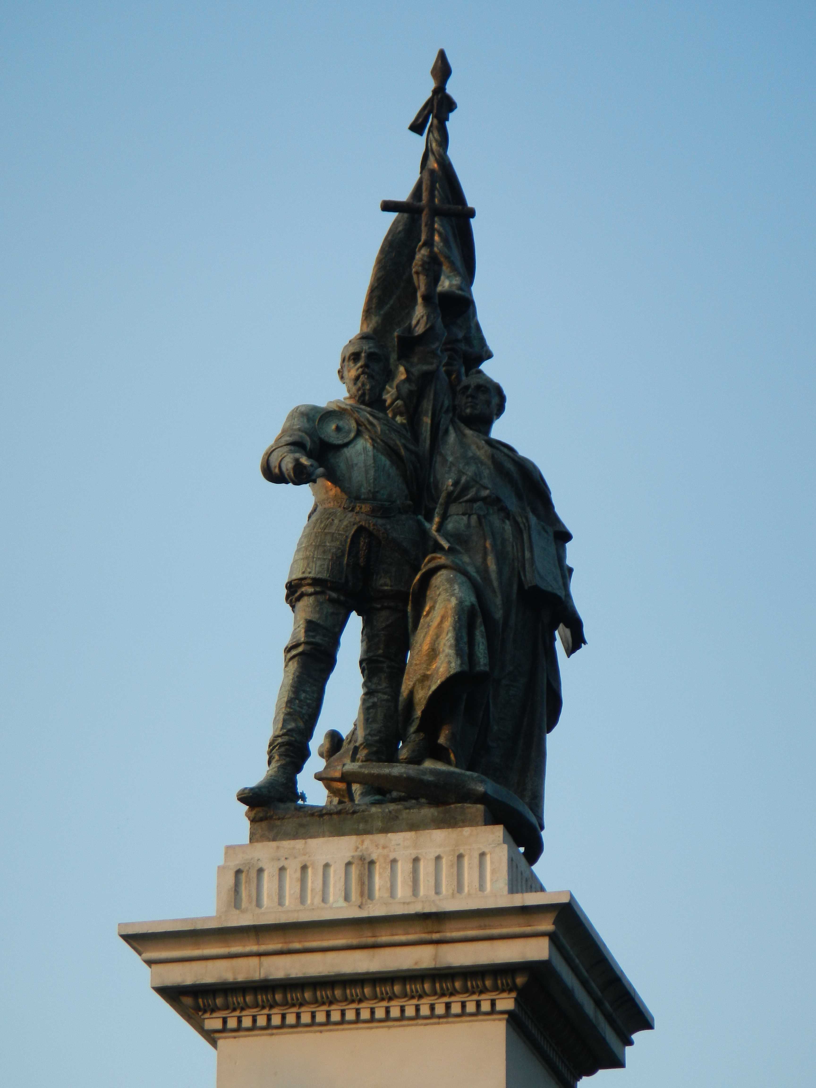 Upload Wizard Panorama photos of -- (general description of landmarks, town, church) - - List of public art in Metro Manila[1] - a) Monument of Jaime Sin [2] b) Andrés de Urdaneta, [3] Miguel López de Legazpi [4] Monument at Intramuros [5] and b) monument of c) José Martí in Manila, Philippines. Put up as part of the 150th anniversary of his birth.- José Martí[6] beside is the d) Club Intramuros Intramuros, Manila - Tourism in Manila[7] - List of golf courses in the Philippines[8] [9] Intramuros Golf Club Manila golf course, park Coordinates: 14°35'18"N 120°58'30"E.